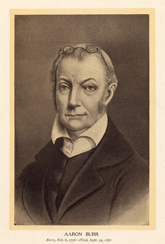 Aaron Burr (1756–1836), Vice President of the United States